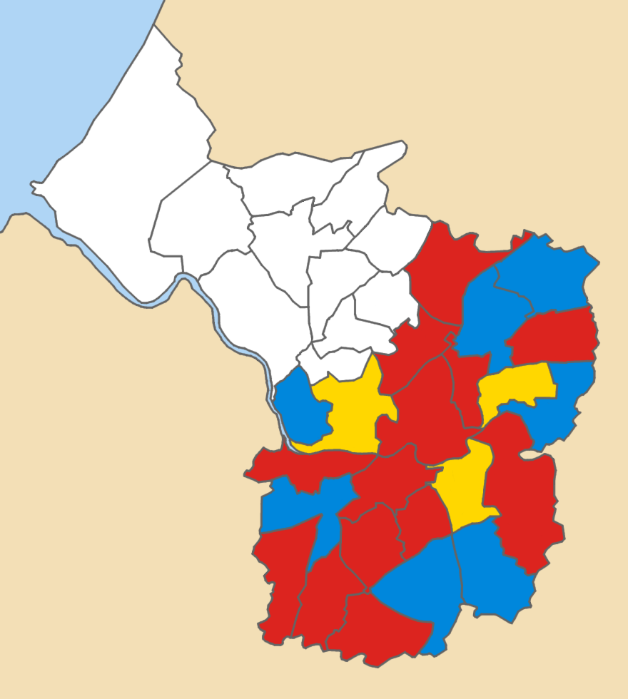 Results of the 1987 local elections in Bristol Colours: Conservative Labour SDP-Liberal Alliance No election in 1987